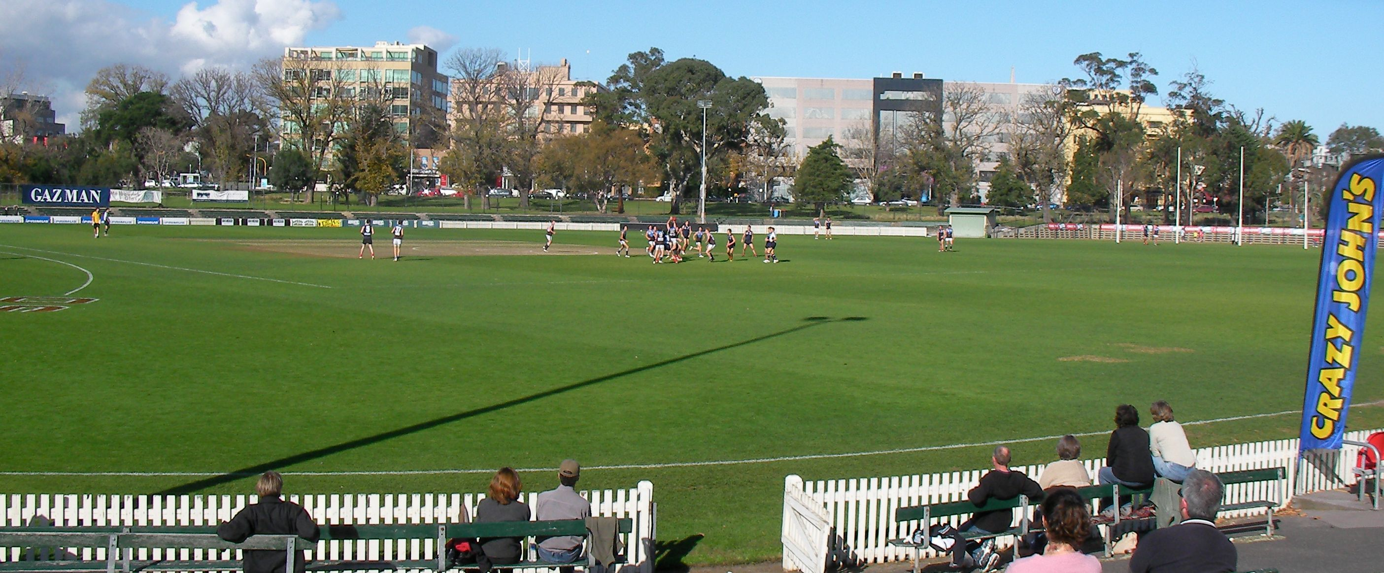 Australian rules football at the Junction Oval in St Kilda. A VAFA match featuring Old Melburnians